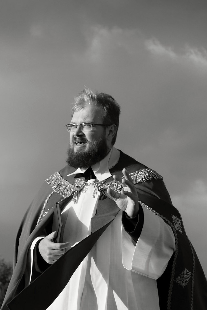 P. Gabriel Rijad Mulamuhič